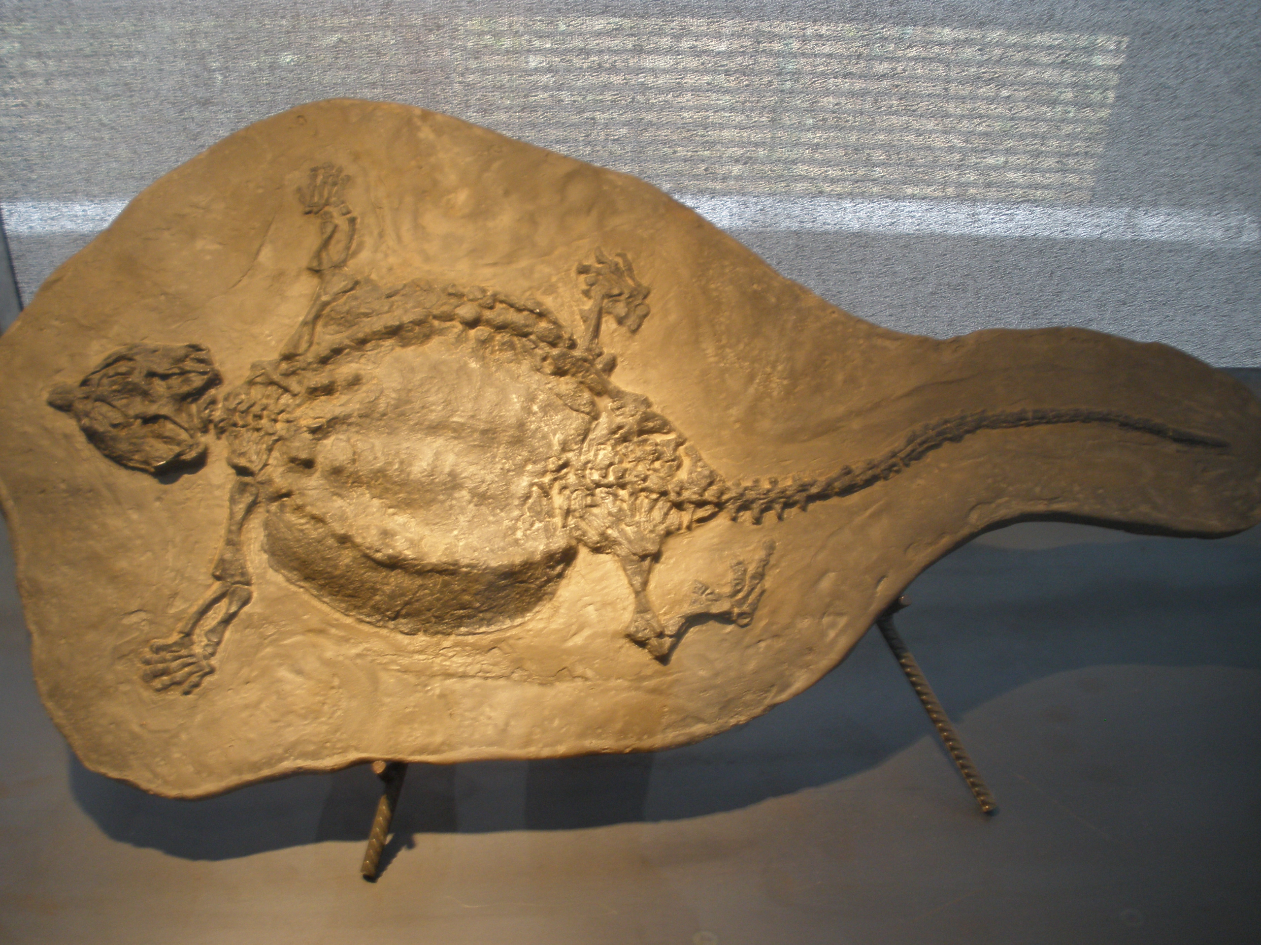 fossil placodont